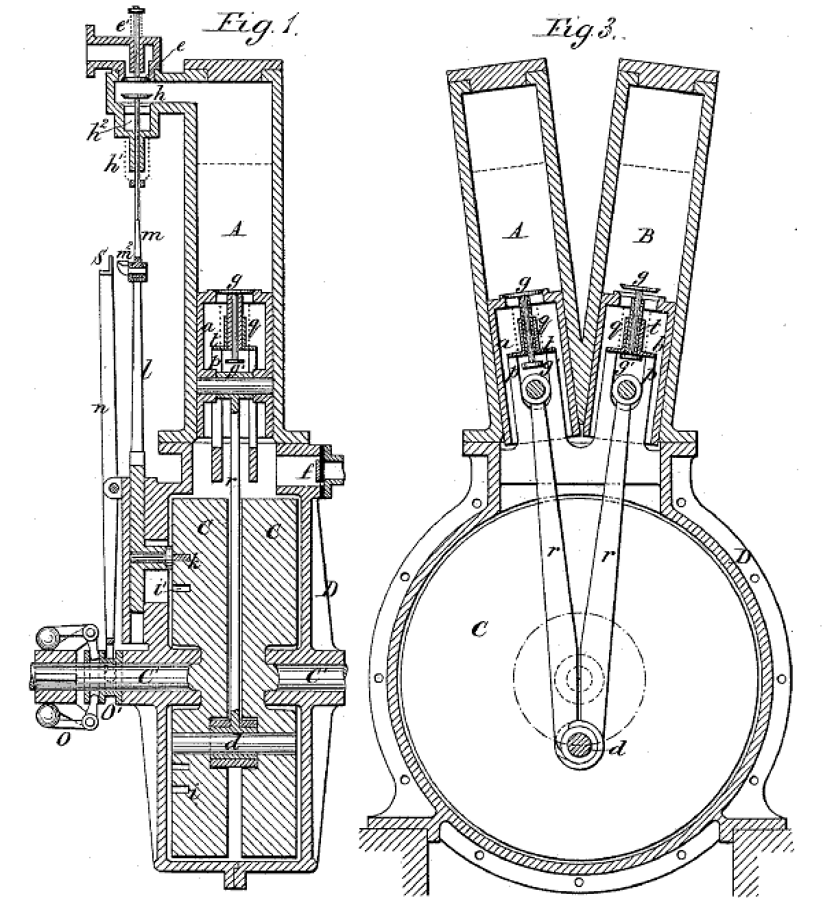 Copy of drawing in US Patent Number 418112, issued to Gottlieb Daimler on 24 December 1889